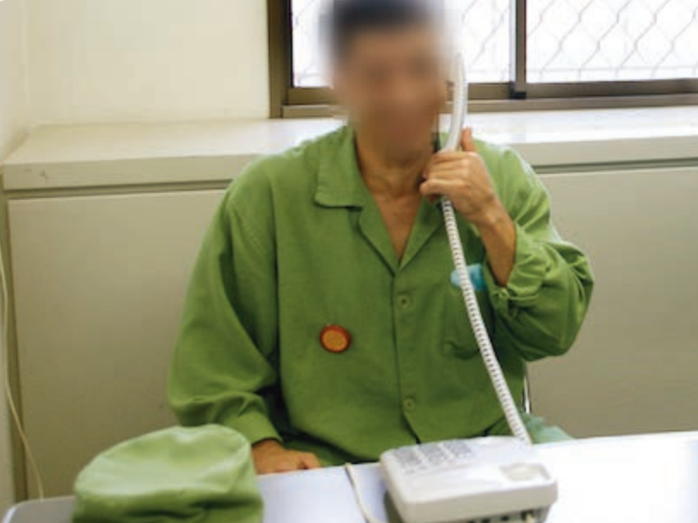 Communication with the outside world (Visits, correspondence, communication by telephone, etc.) inside the penal institution